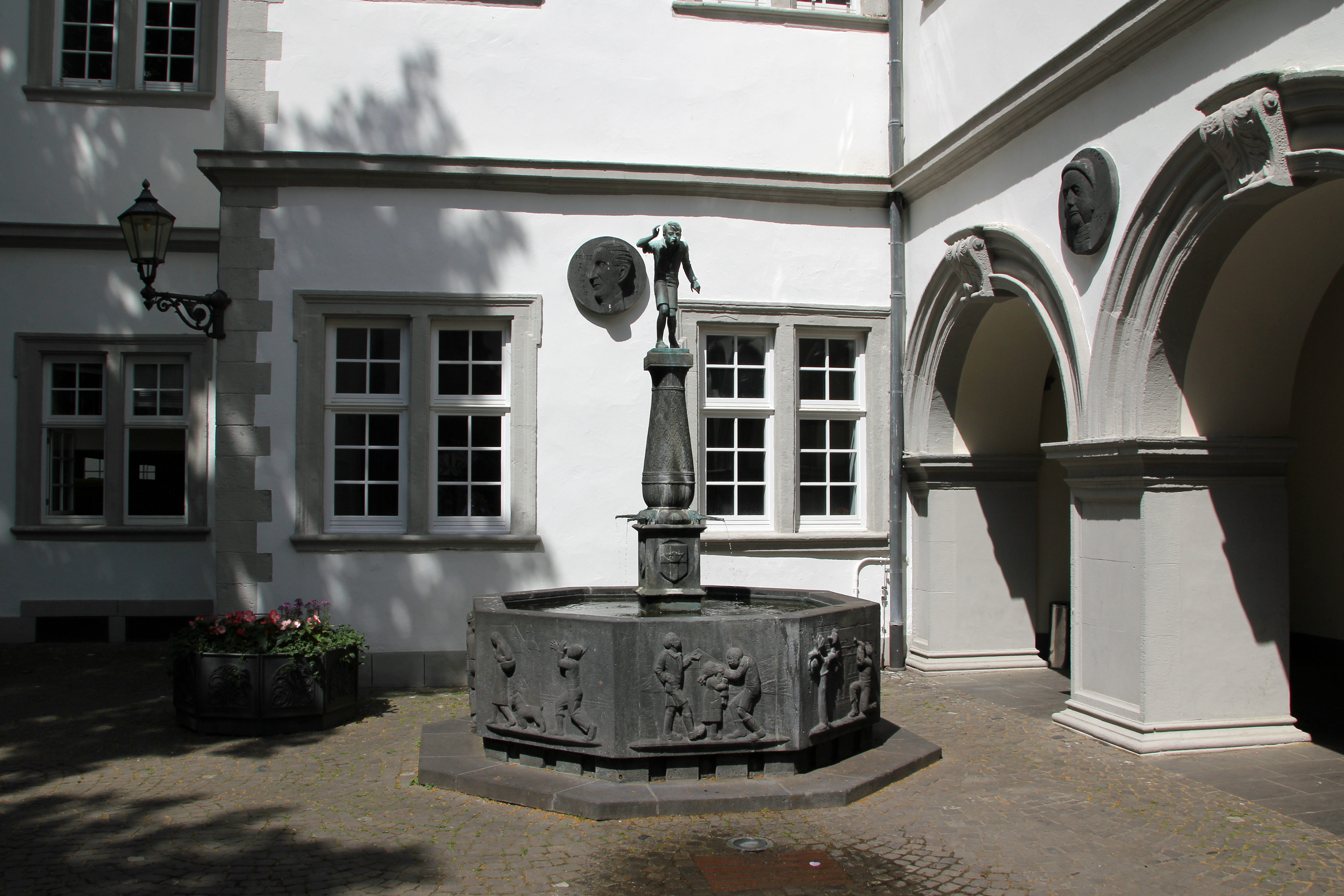 City hall of Koblenz - Schängel-Fountain